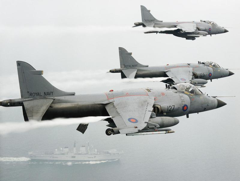 HMS Invincible 1980 - 2000 Sea Harriers from HMS INVINCIBLE in flight over the Adriatic during Operation GRAPPLE, the British military deployment in support of the United Nations Peace Keeping Force in Bosnia (UNPROFOR). INVINCIBLE sailed for the Adriatic on 22 July 1993 to relieve HMS ARK ROYAL. She remained in theatre until March 1994, with No 800, 814, 846 and 849A Naval Air Squadrons embarked. On 20 September 1993, the ship hosted unsuccessful Warring Parties Peace Talks, involving Lord Owen and Mr Stoltenborg.